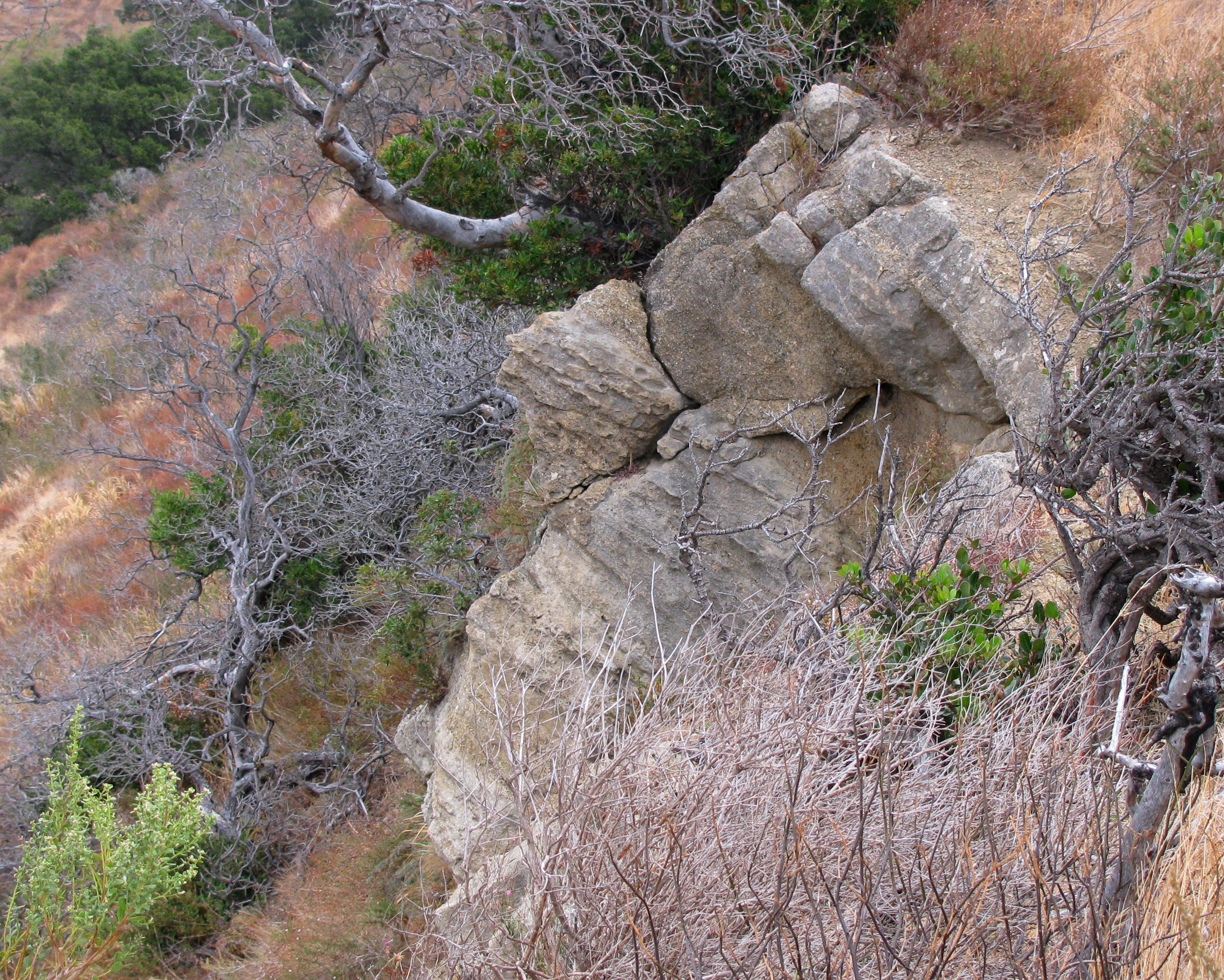 Vaqueros Formation, Gaviota State Park, California, USA; photo by self, 9/11/10; GFDL/equiv.